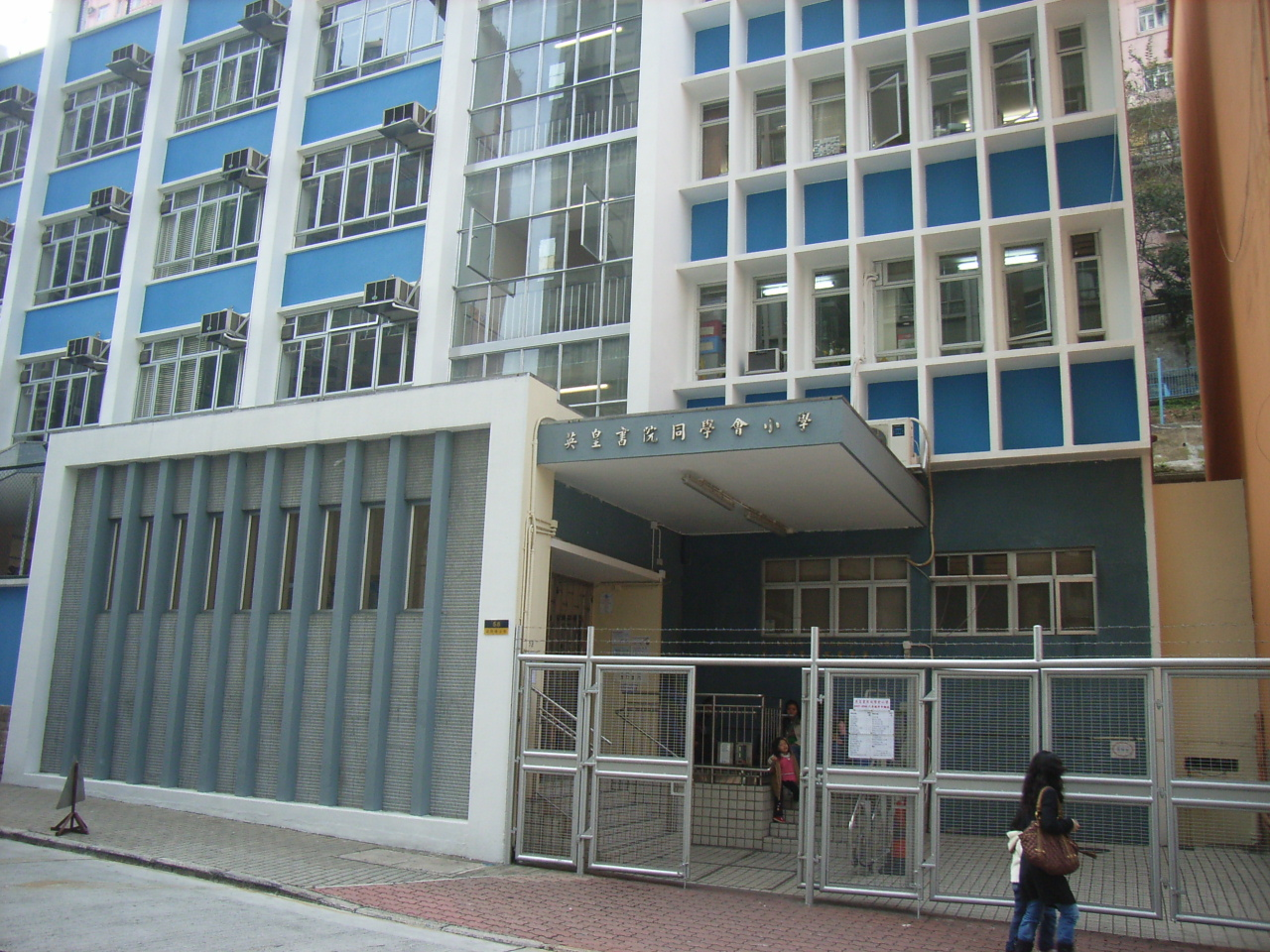 Bridge Street, Sheung Wan, Hong Kong (Photographer & author: User:BITBITSW).